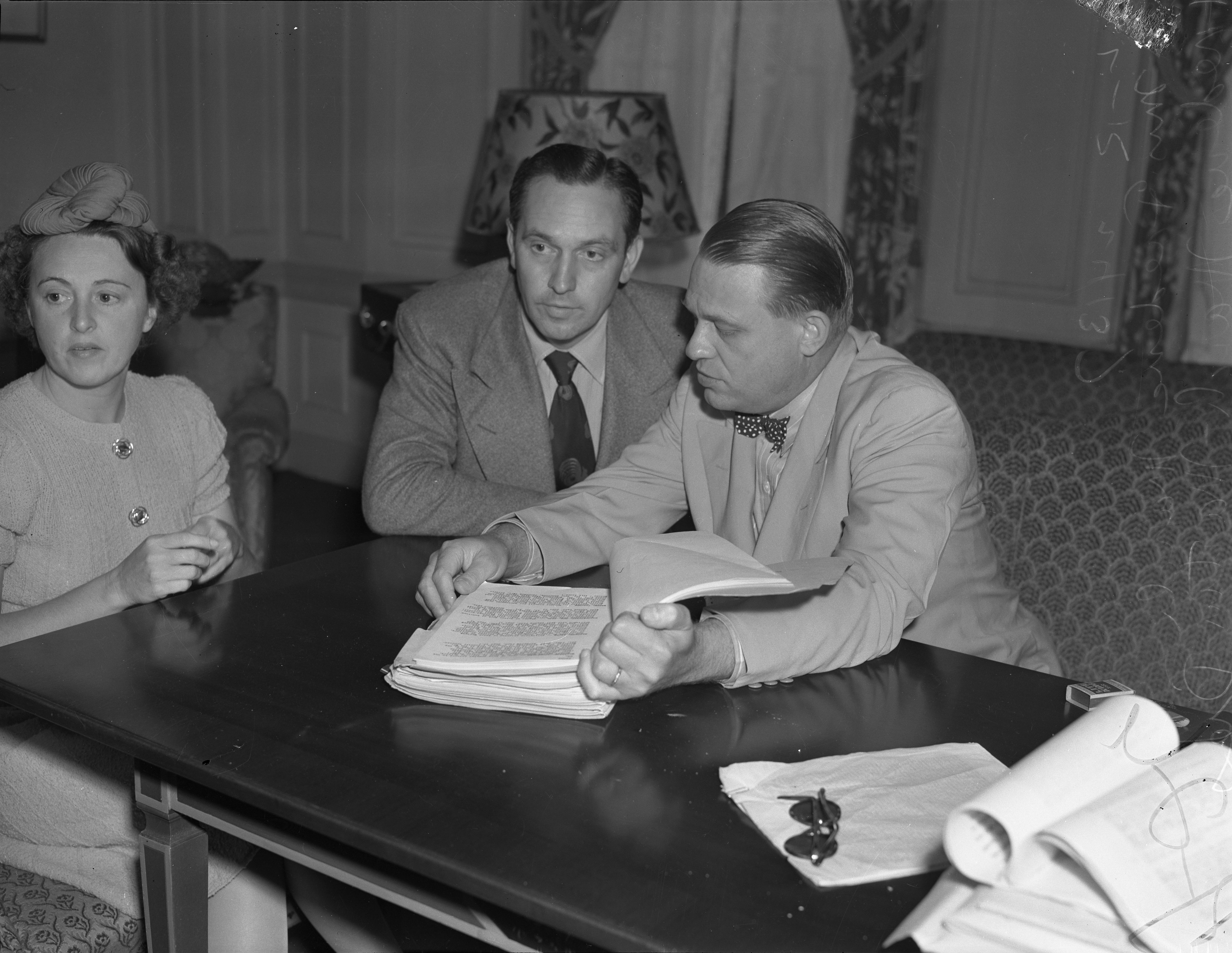 Title: Actor Fredric March, his wife Florence Eldridge, and Martin Dies at table during Un-American Activities Committee hearings in Los Angeles, Calif., 1940 Publication:Los Angeles Daily News Publication date:1940 Source:Los Angeles Times photographic archive, UCLA Library Note about non-renewal of copyright: [1]